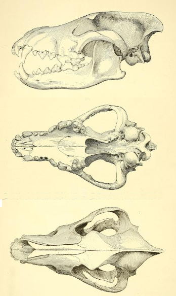 Dire wolf skull